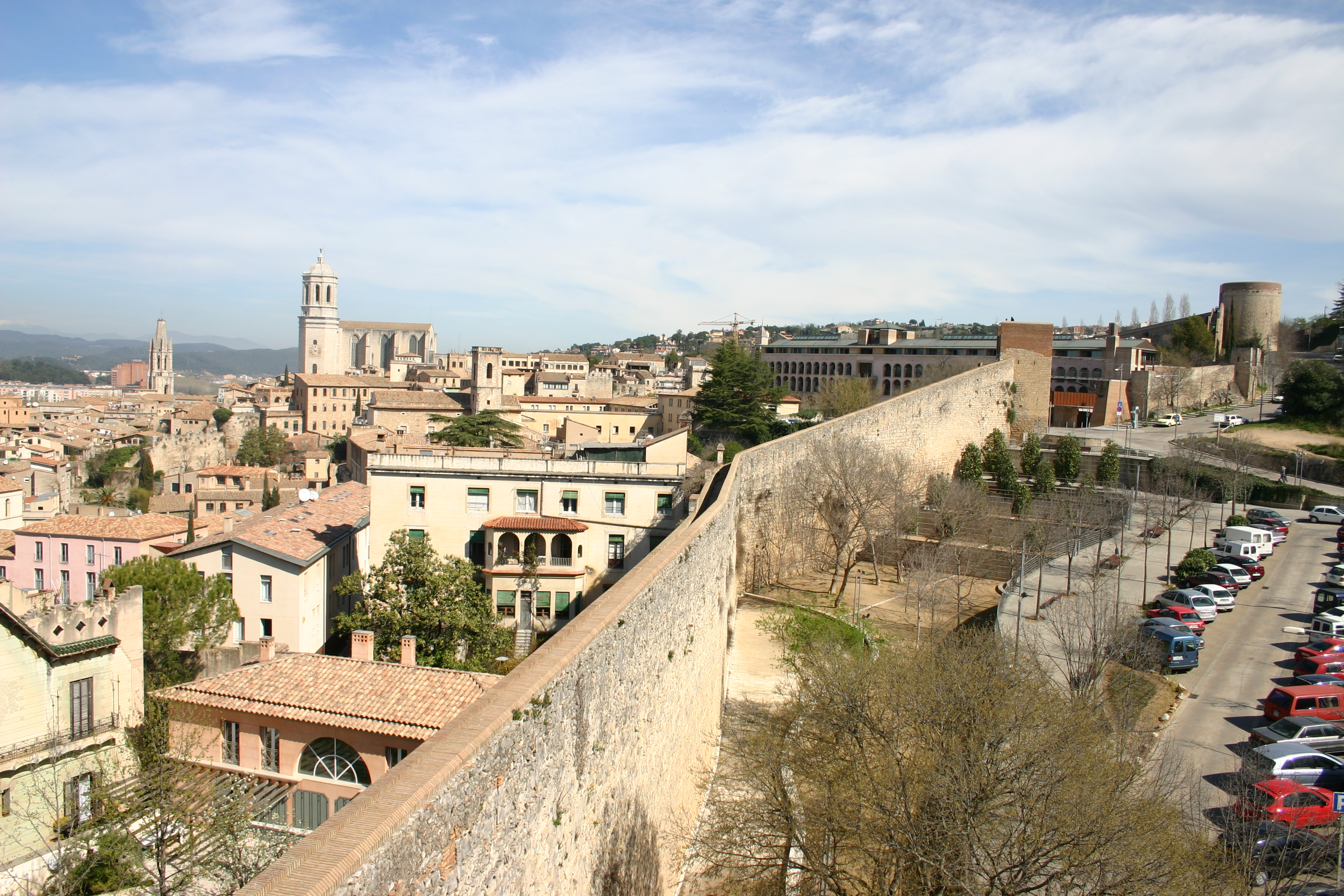 Girona's Wall